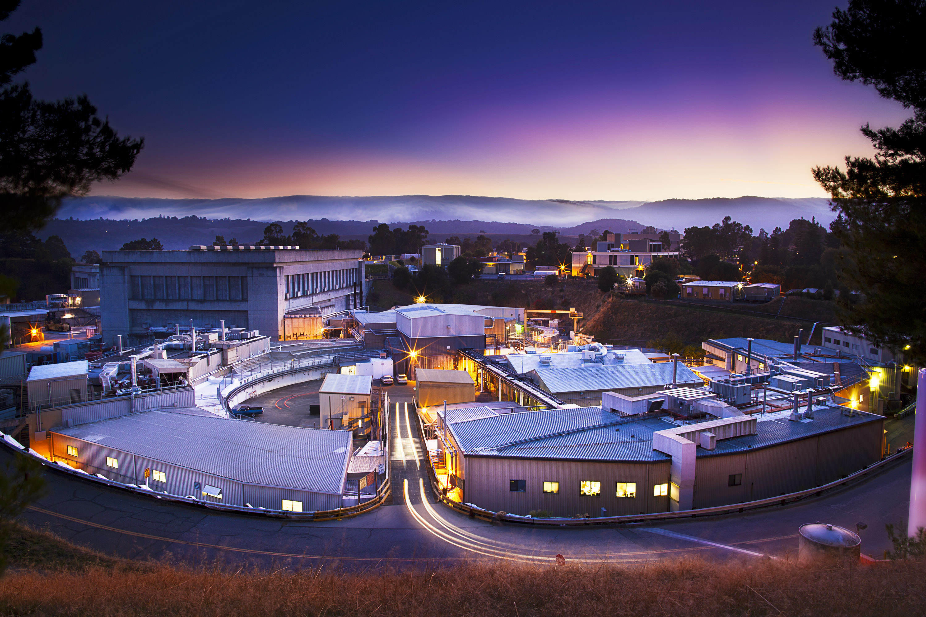 SSRL at dusk